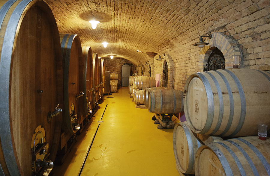 Winery in Irig, wine cellar, 1930.